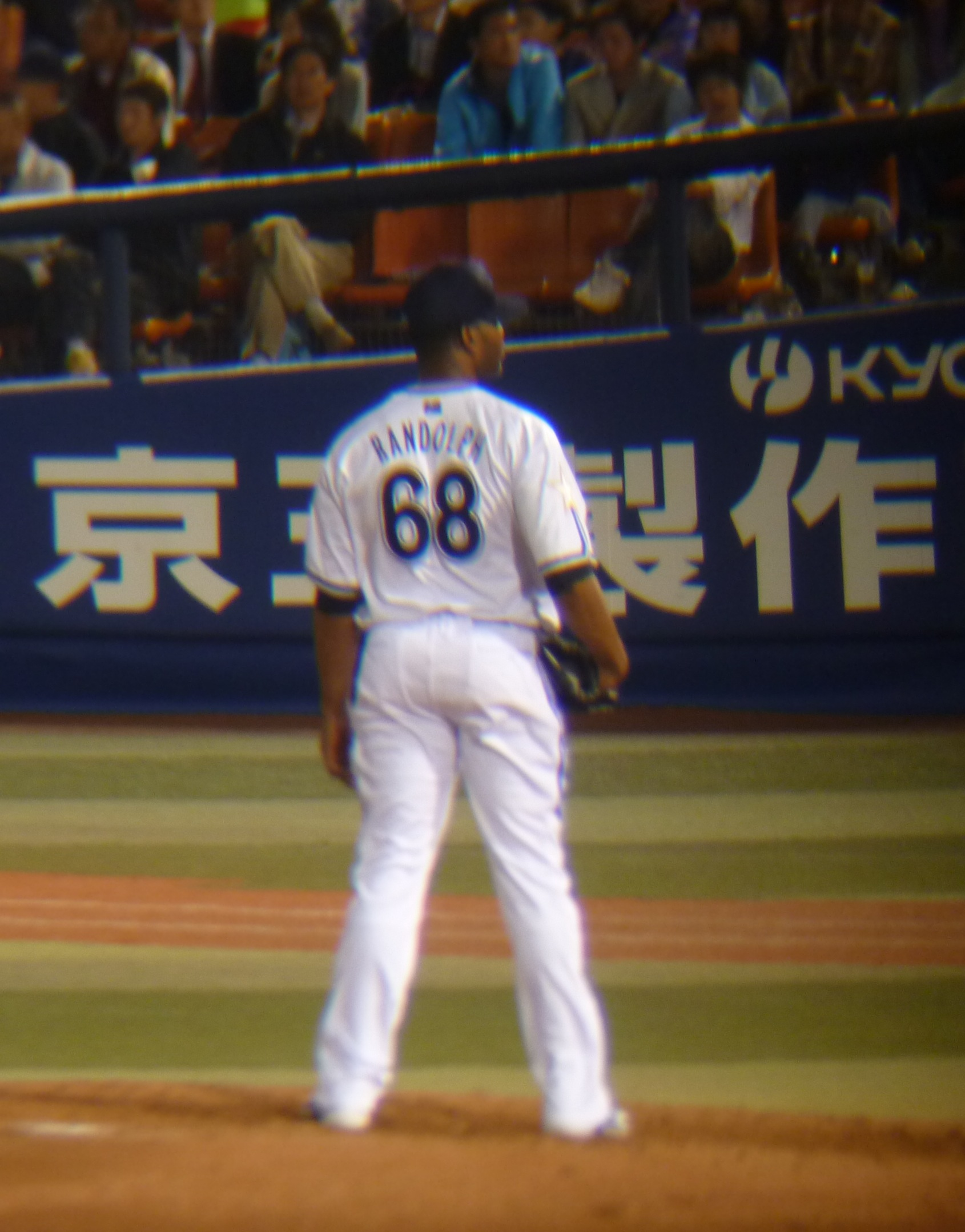 Stephen LeCharles "Steve" Randolph (born May 1, 1974 in Okinawa, Japan) is an American left-handed pitcher formerly in Major League Baseball and Nippon Professional Baseball.